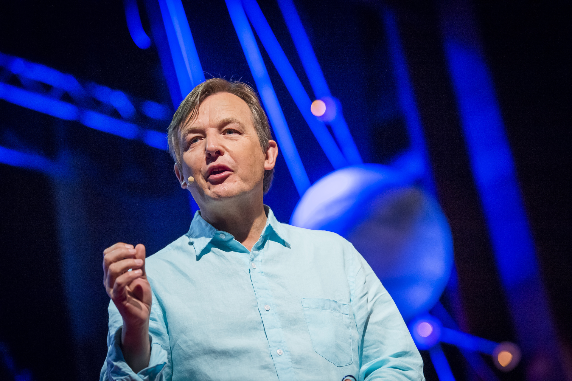 TED Curator Chris Anderson (Photo: James Duncan Davidson/TED)